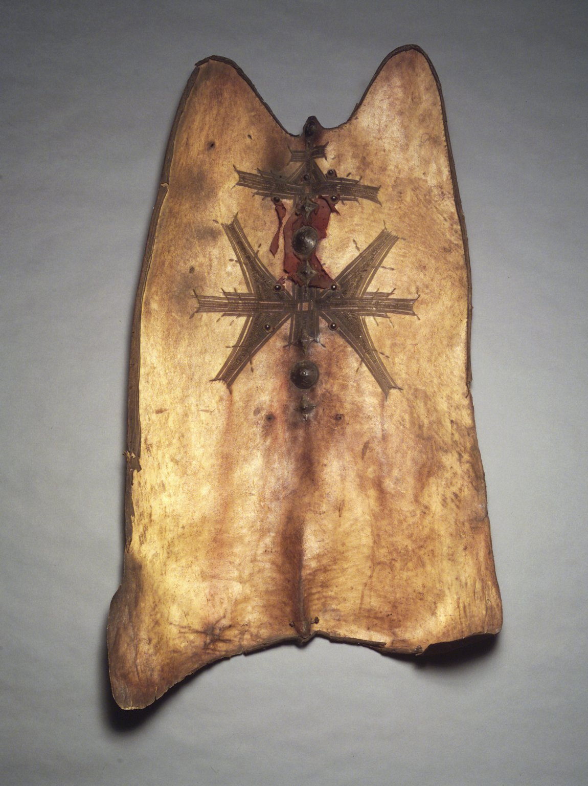 Shield